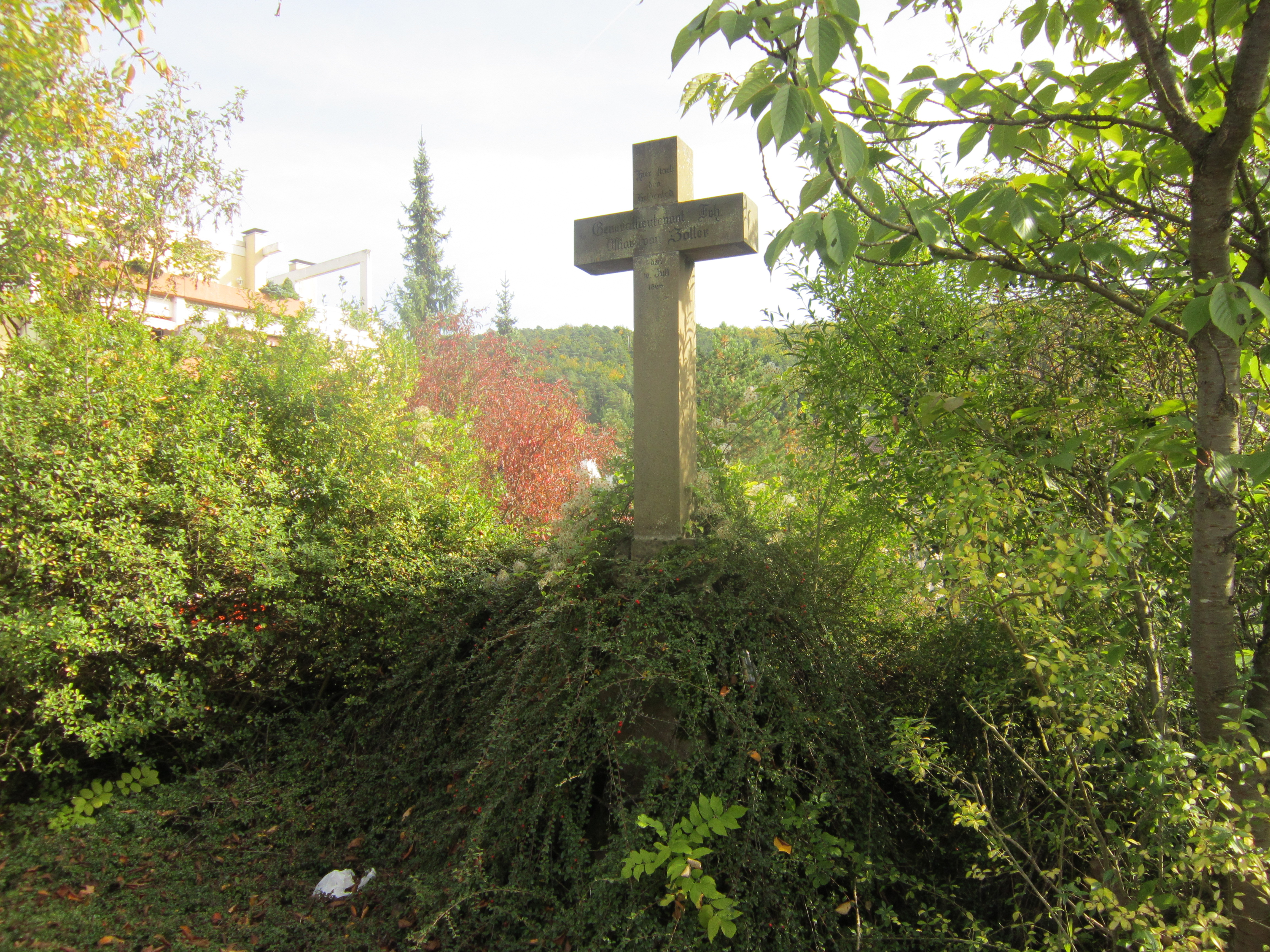 "Zoller-Gedenkstein" commmorating the Austro-Prussian War. It is located in the German spa town of Bad Kissingen (Lower Franconia, Bavaria).